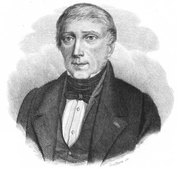 from [1]